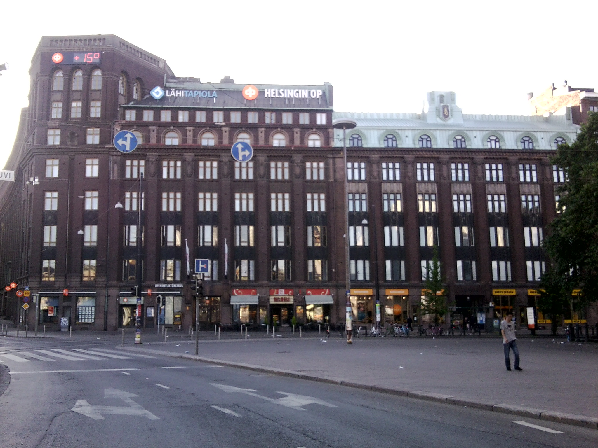 Mikonkatu 13, Helsinki, Finland as seen from the Kaivokatu street.